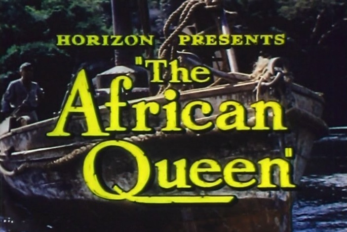 Screenshot from the trailer for the film The African Queen.